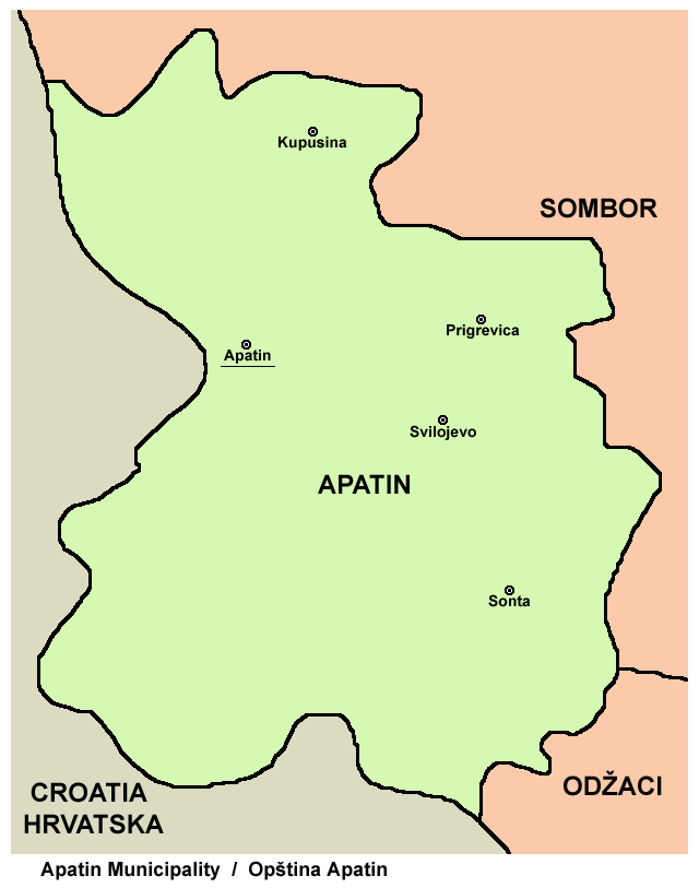 map of Apatin municipality, Vojvodina, Serbia